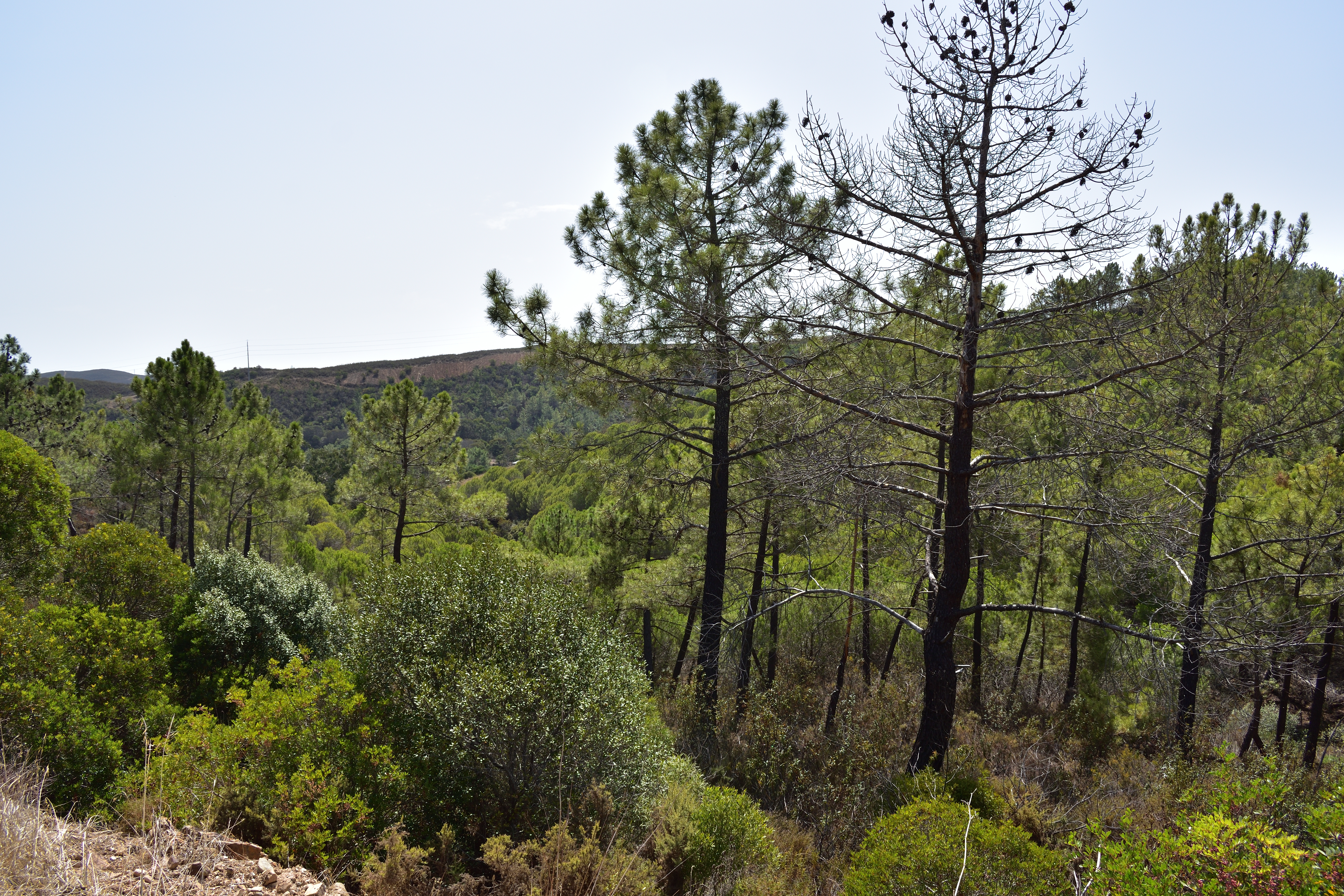 Pine Trees, near Barragem de Odeáxere, Lagos - Algarve, Southern Portugal.